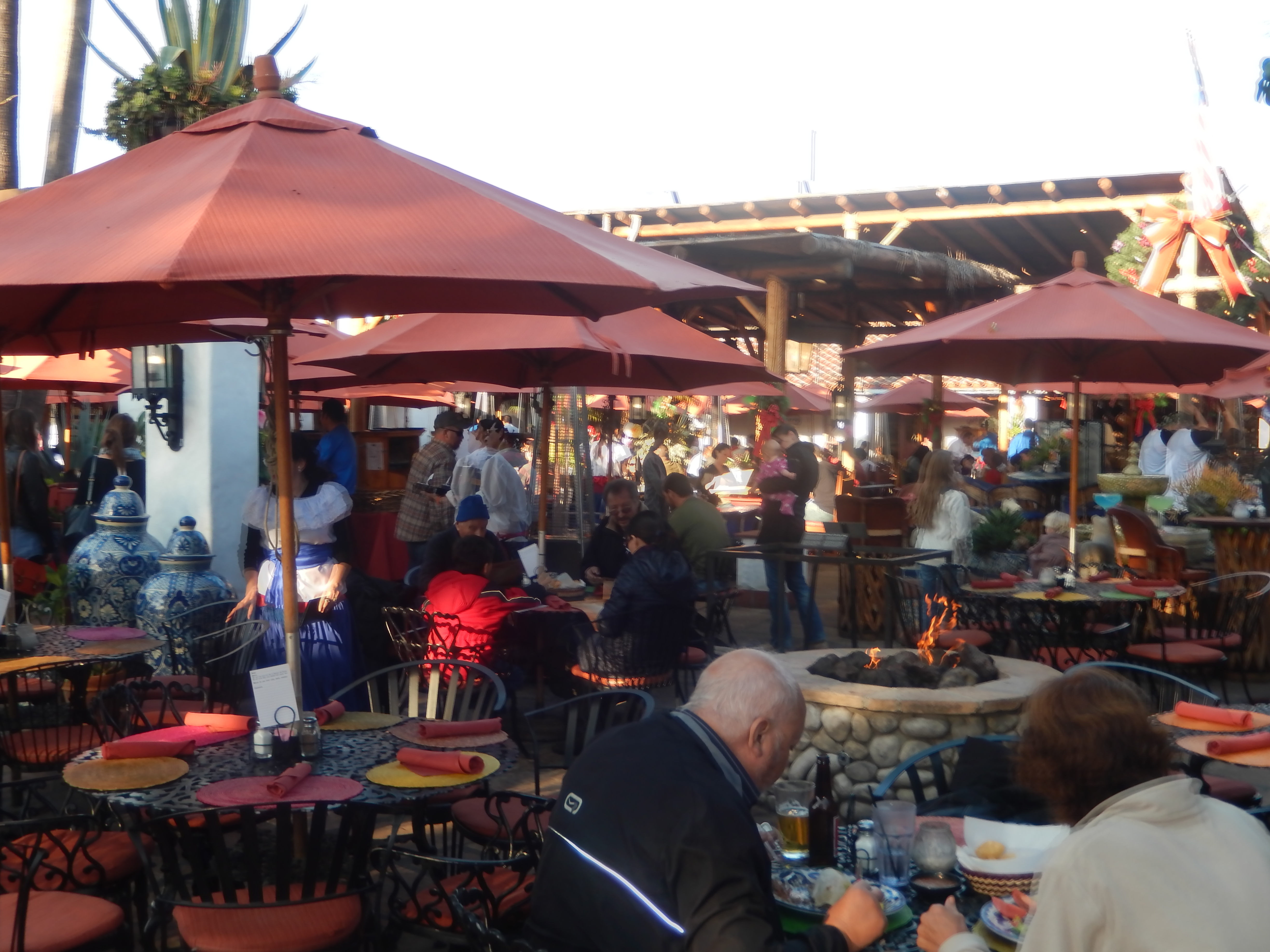 I took photo with Nikon camera of outdoor cafes in Old Town, San Diego.